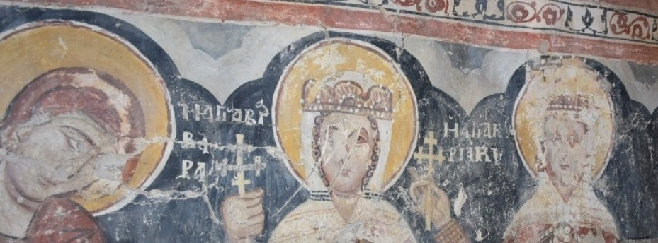 Saint Athanasius Kostochori